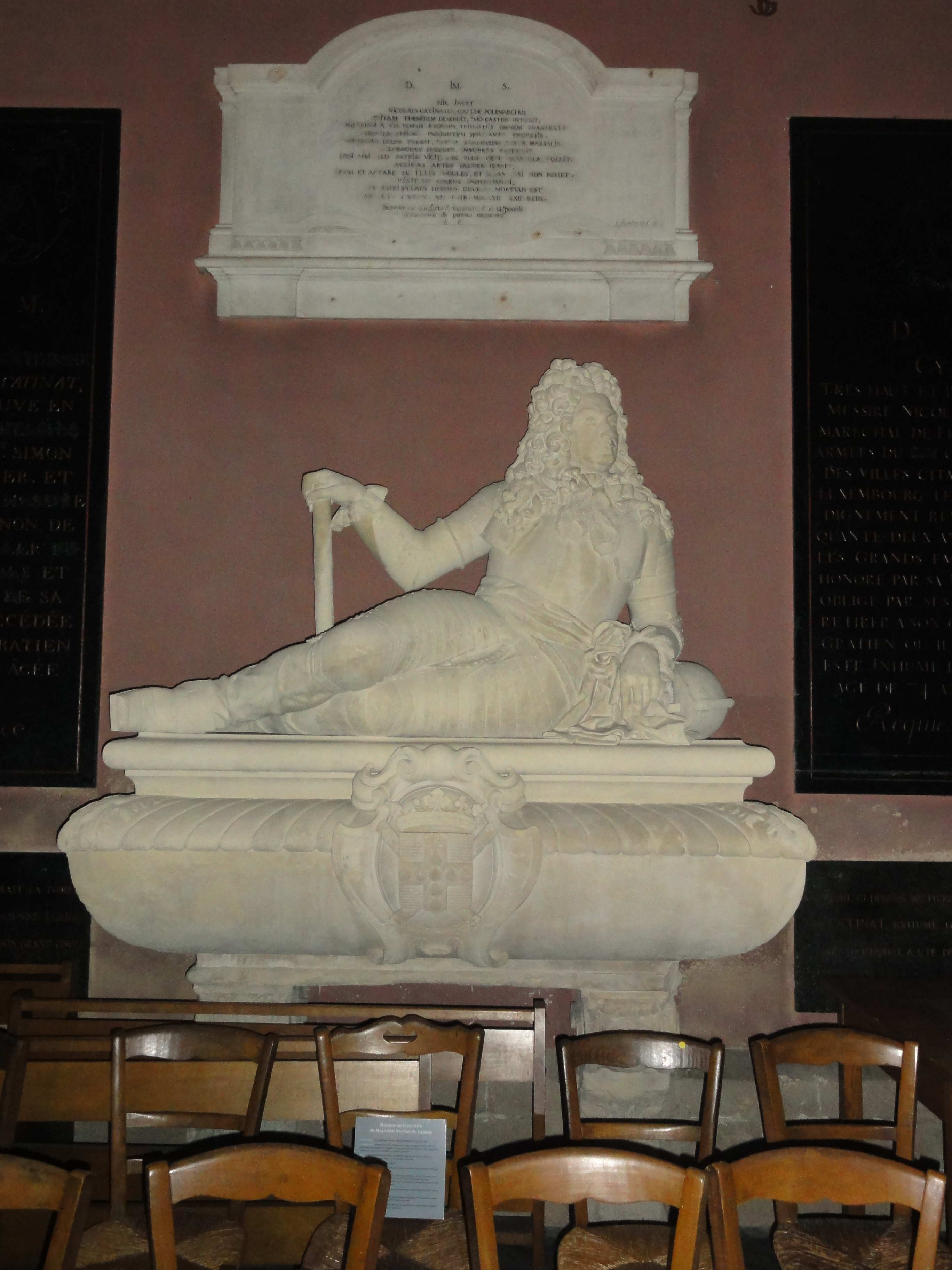 Saint-Gratien (Val-d'Oise) tombeau de Catinat